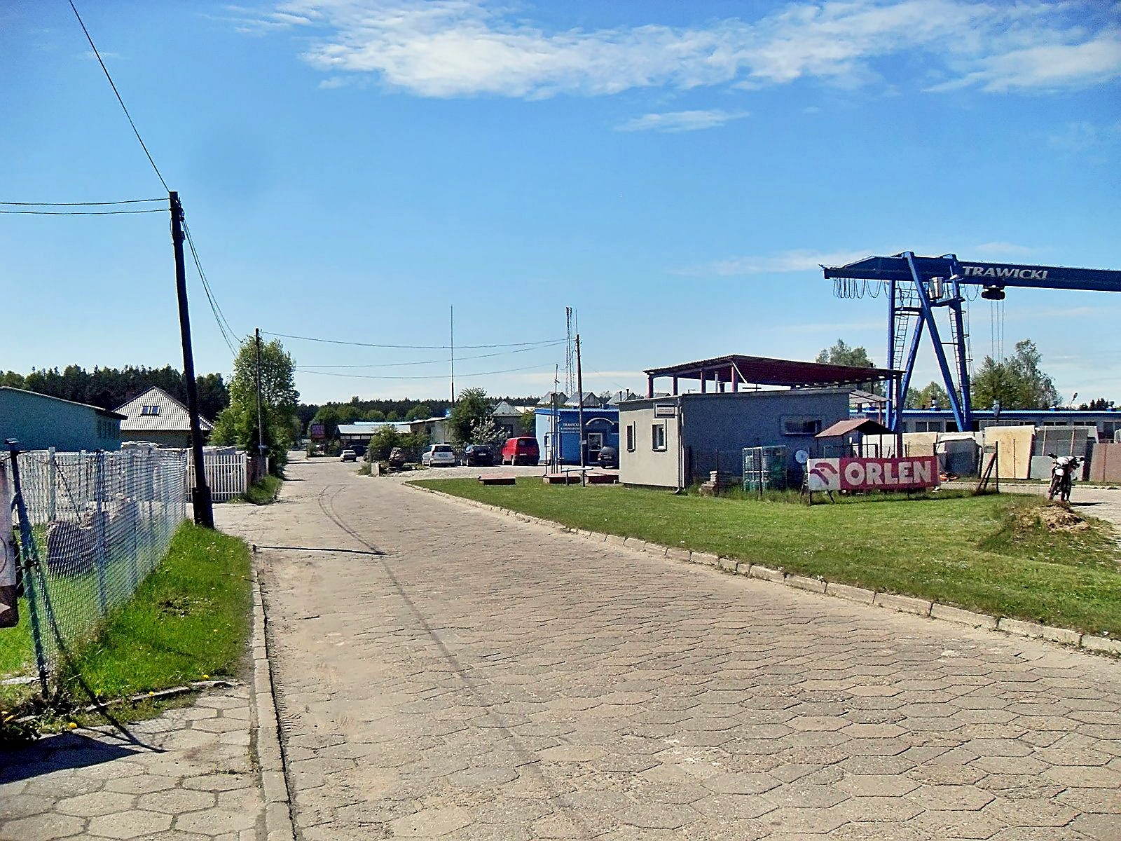 This is an area in the KOP-u in Kaliska